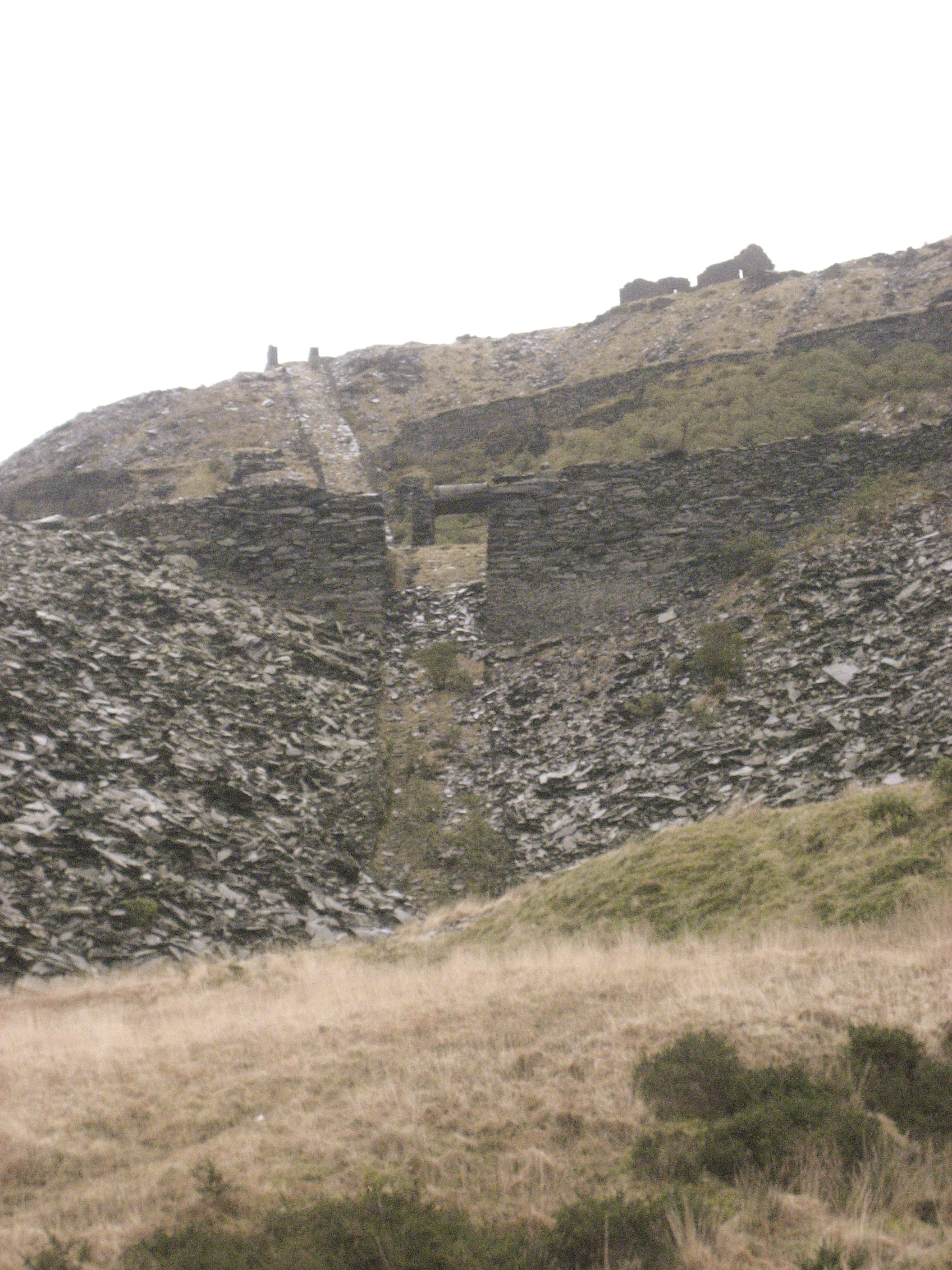 Inclines leading down from Maenofferen quarry into Votty & Bowydd, Blaenau Ffestiniog